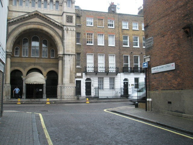 Junction of Hampden Gurney Street and Upper Berkeley Street